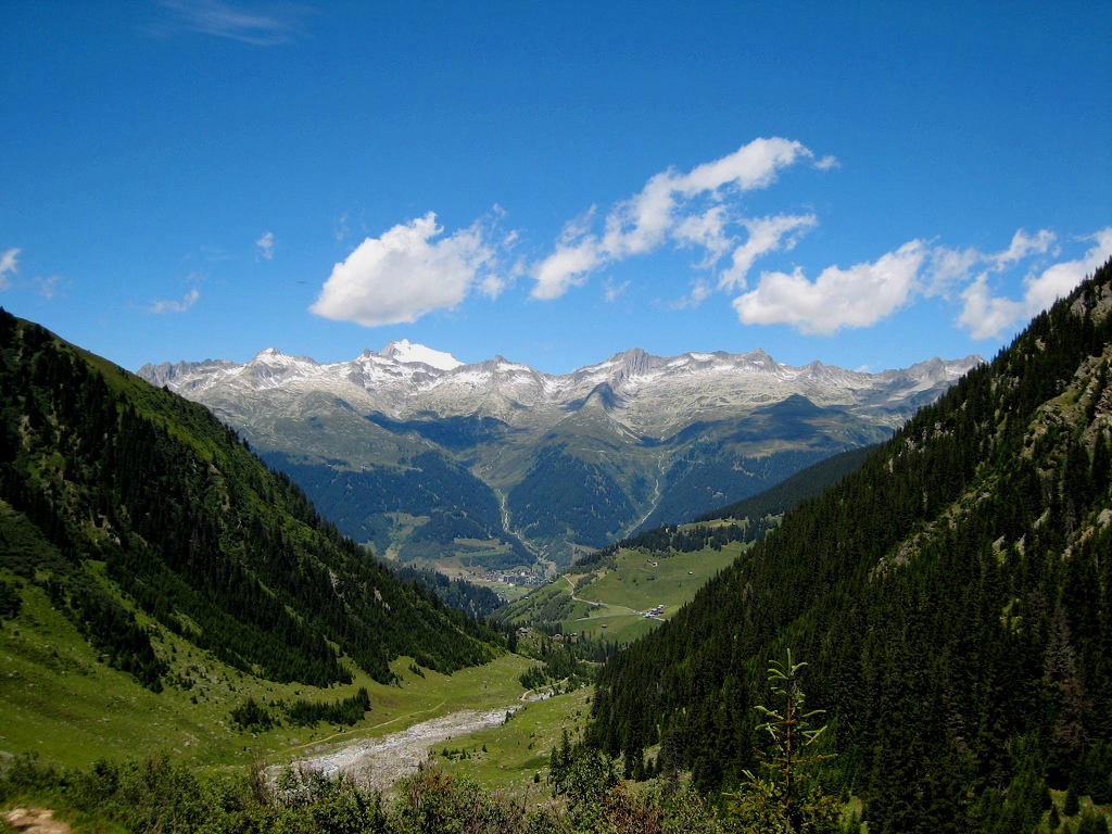 Oberalpstock, Graubünden